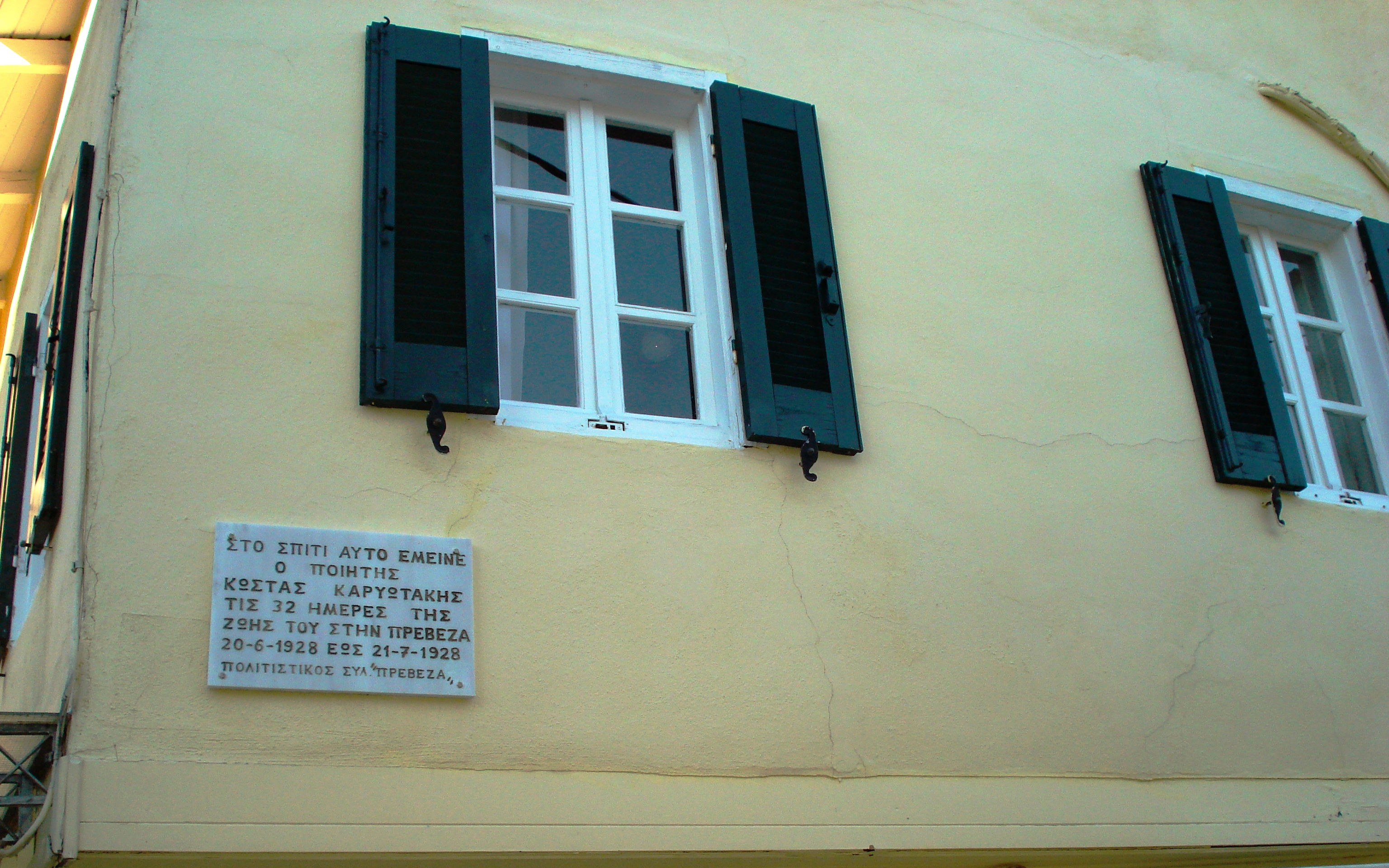 House in Preveza where Kostas Karyotakis lived